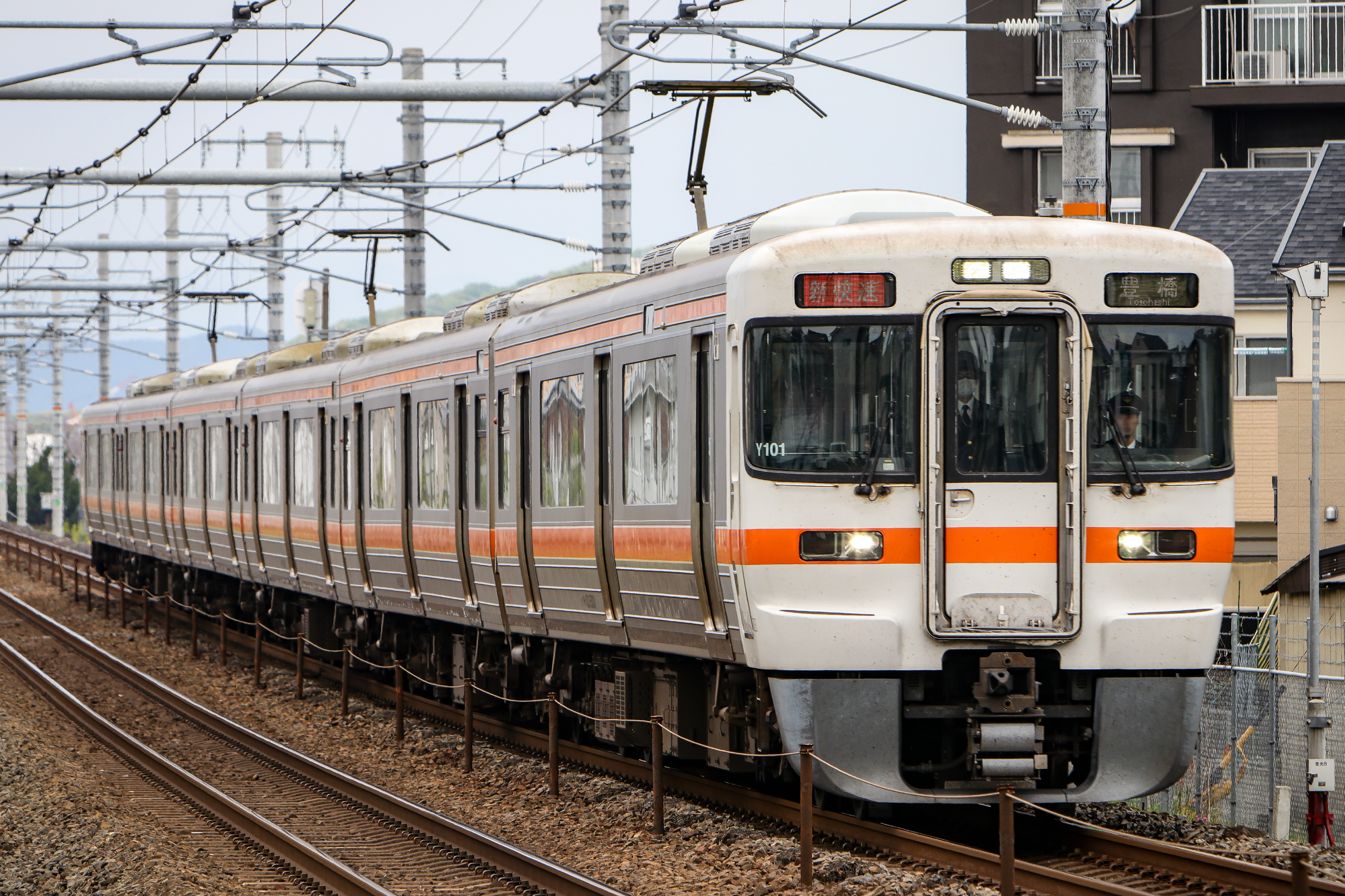 JR Central 313-5000 series EMU set Y101 running between Gifu and Kisogawa